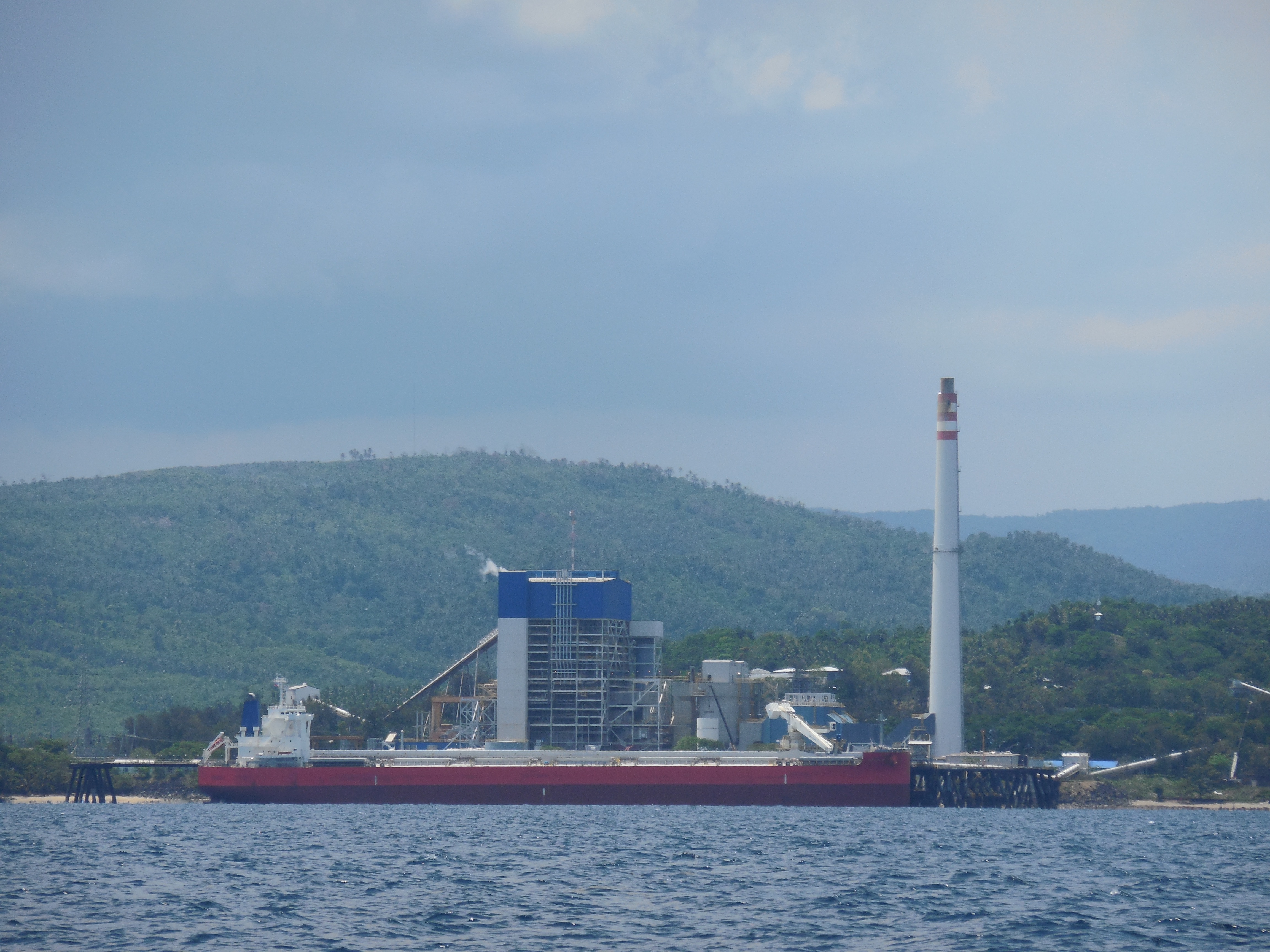 The coal-fired Quezon Power Plant in Mauban, Quezon. The 511 MW power plant was commissioned in 2000 and is owned and operated by Quezon Power (Philippines), Limited Co.